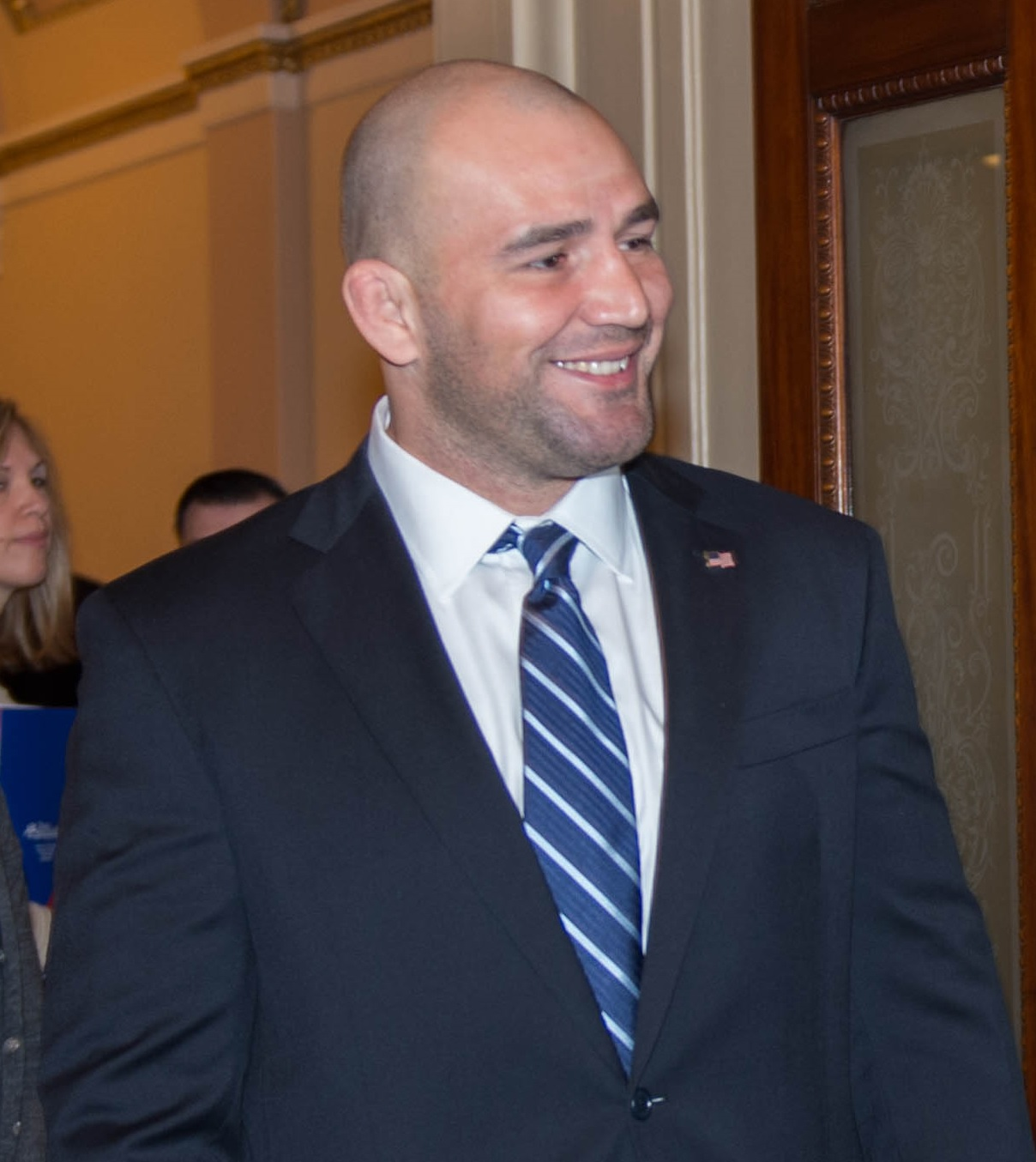 UFC Fighter Glover Teixeira.